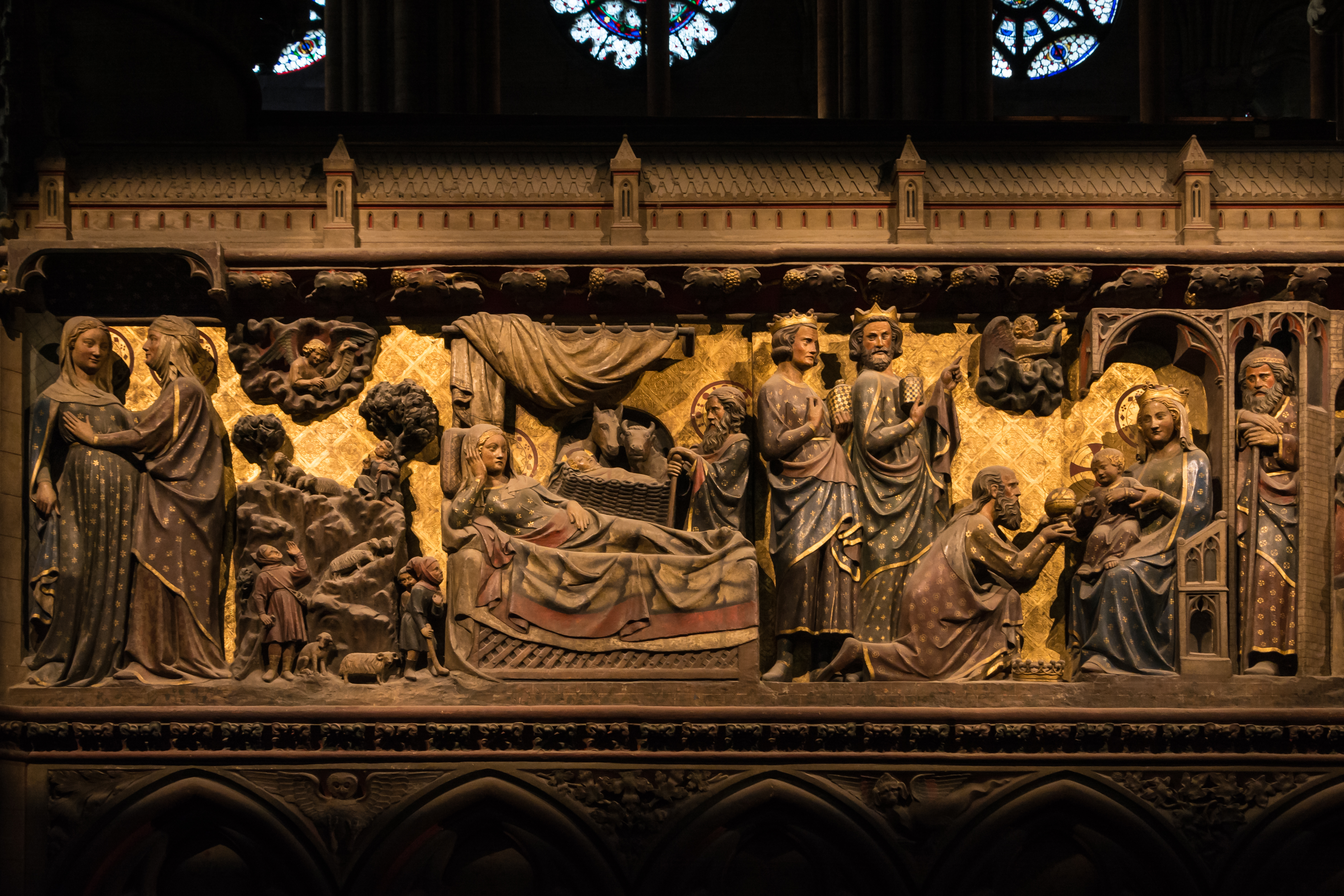 Choir screen at cathedral Notre-Dame de Paris, France. Detail of the north side: Mary visits Elizabeth, Annunciation to the Shepherds, Nativity of Christ, Adoration of the Magi